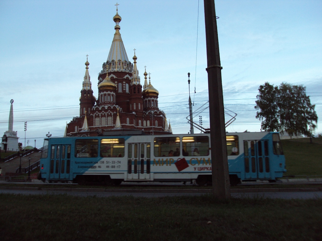 Tram in Izhevsk